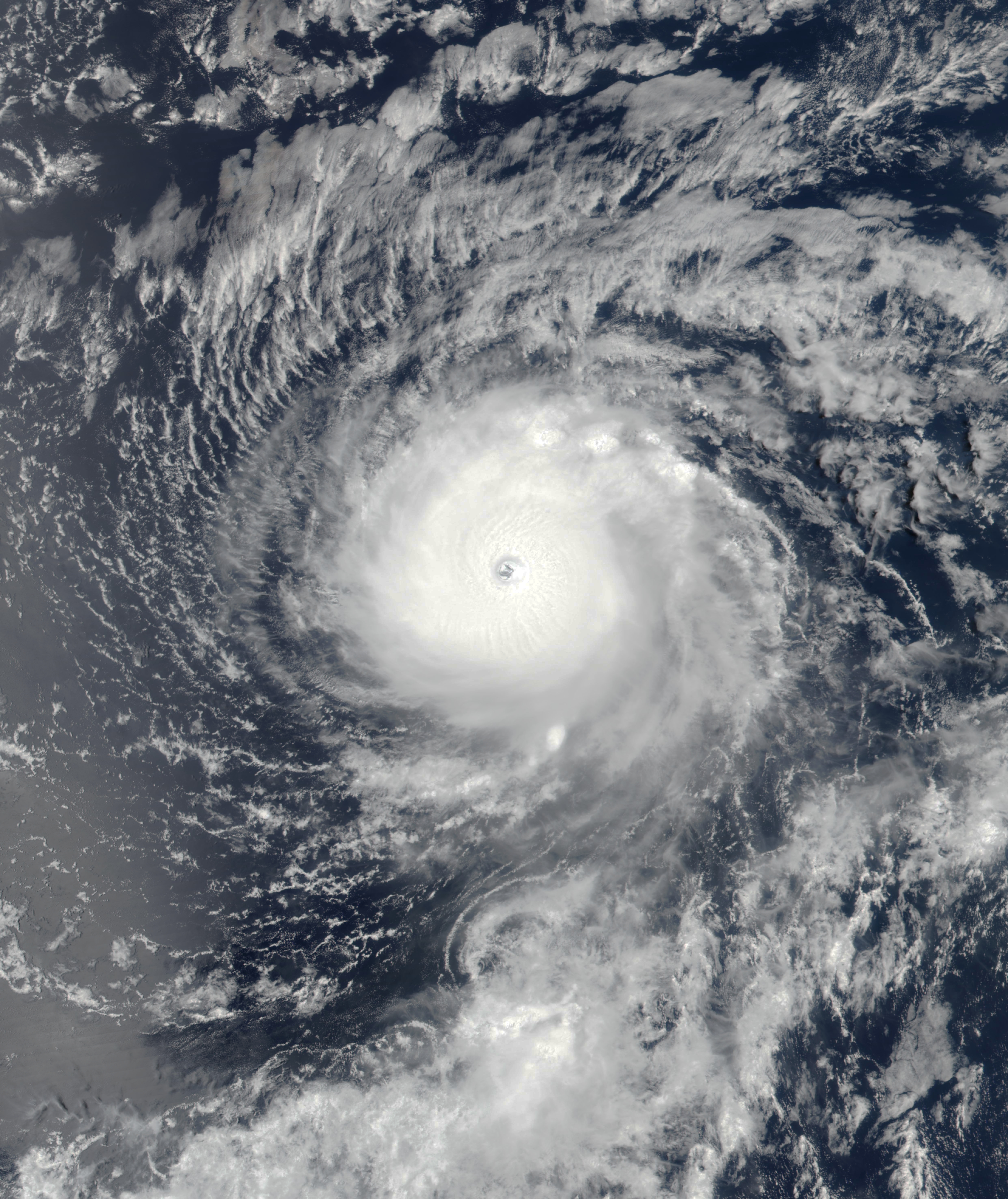 Hurricane Hector near peak intensity